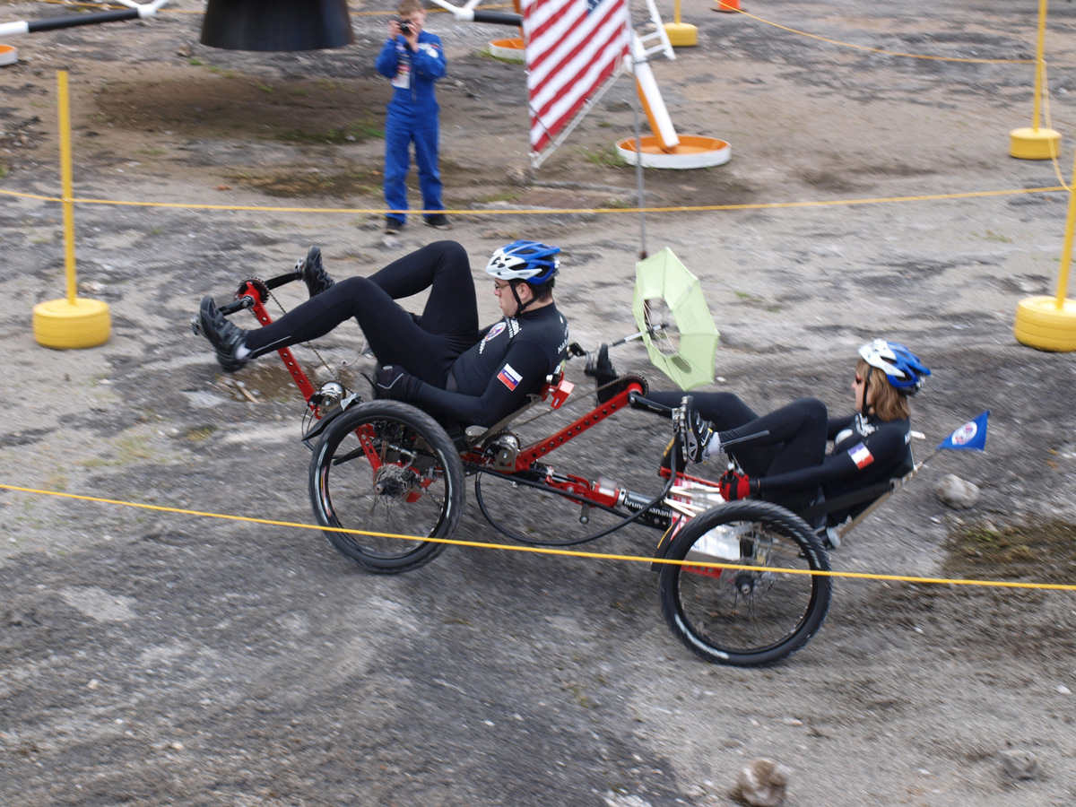 Moonbuggy Race 2011